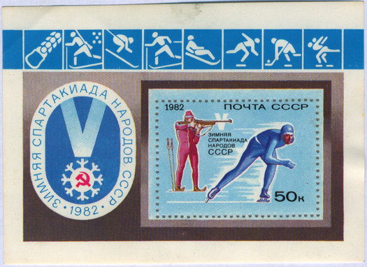 5th Winter Spartakiad of the Peoples of the USSR. Commemorated on the 1982 USSR souvenir sheet. On the left is the emblem of the Spartakiad. Removed from the following pages: Spartakiad --OrphanBot 01:31, 5 August 2006 (UTC) A series of stamps was released in million copies to commemorate each of these events, as mentioned in the article on the Spartakiad and approves the importance of them for the Soviet sports. An image of one of such stamps may be qualified as Fair use, I think. Cmapm 13:39, 5 August 2006 (UTC)